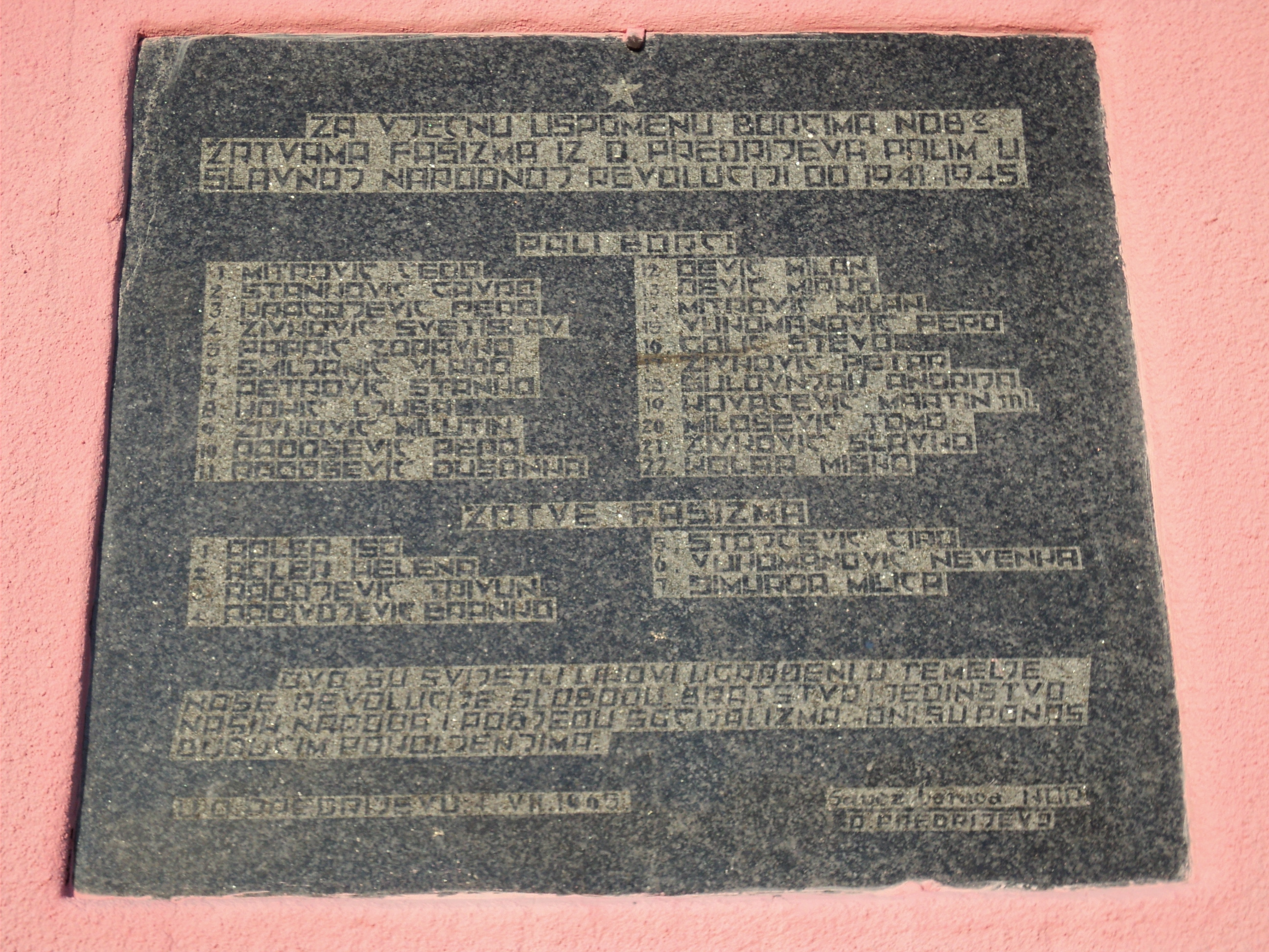 Donje Predrijevo.